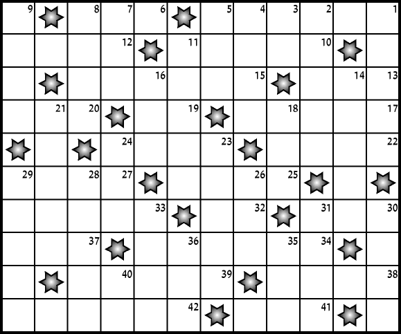 a simple crossword